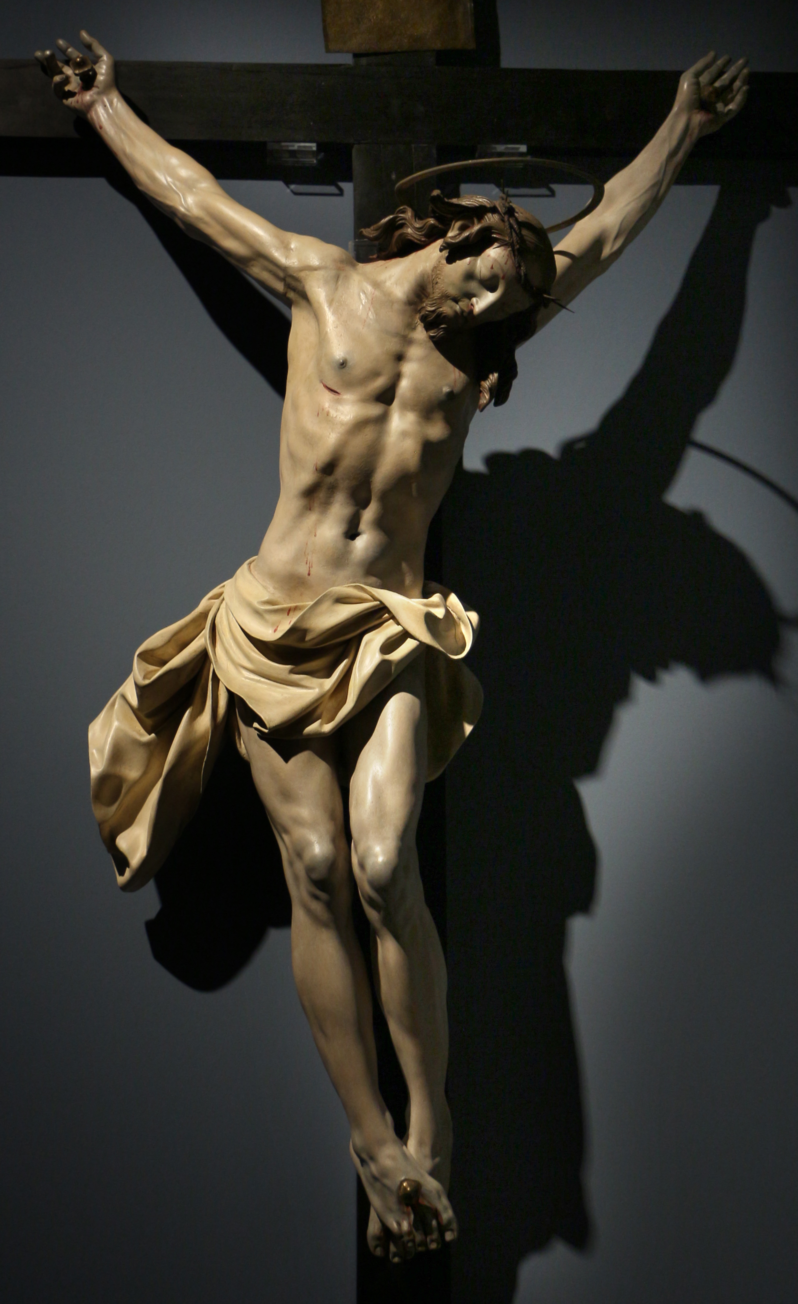 Restituzioni 2016